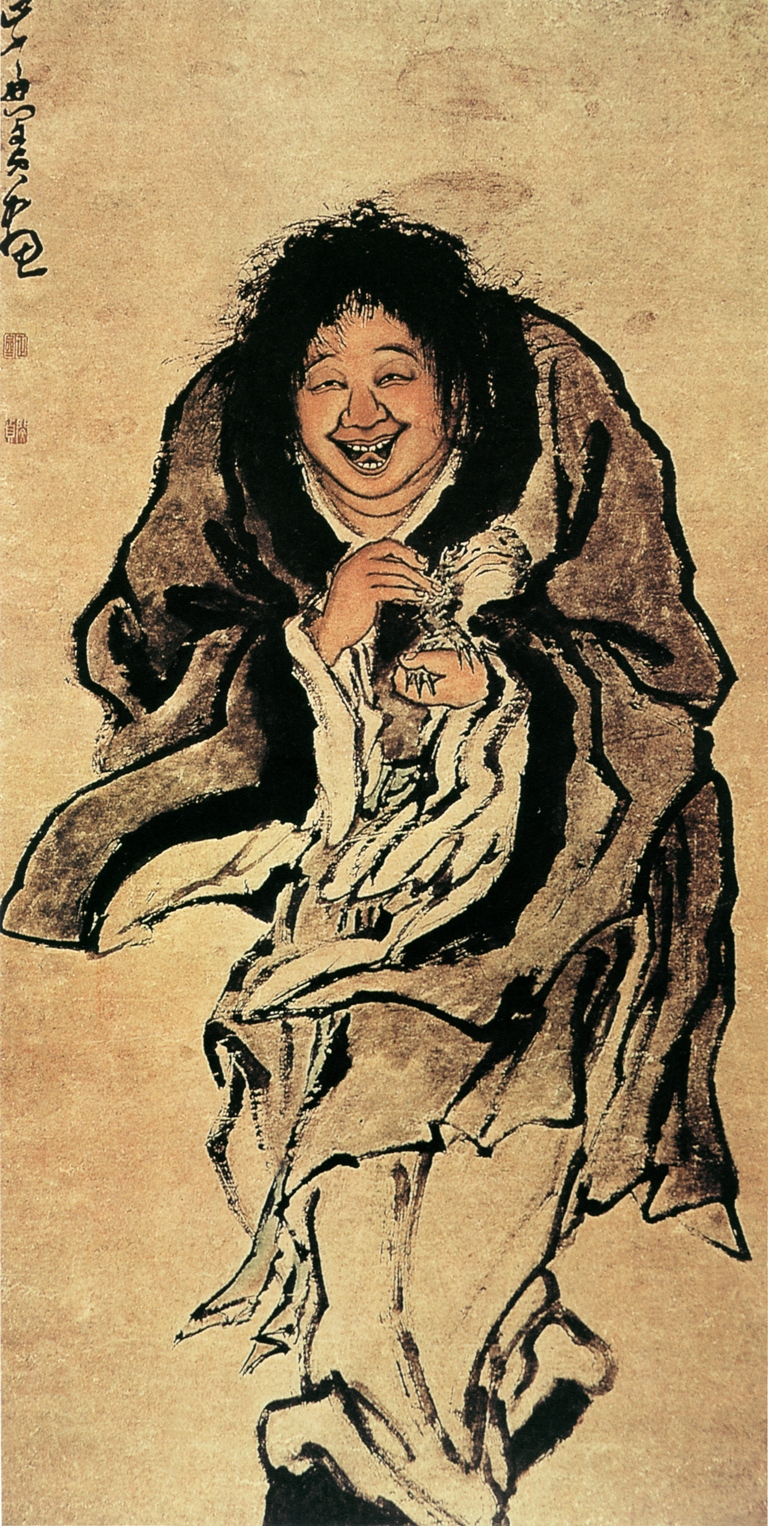 Toad Wizard, Min Zhen, Qing Dynasty, China, Private Collection, Japan